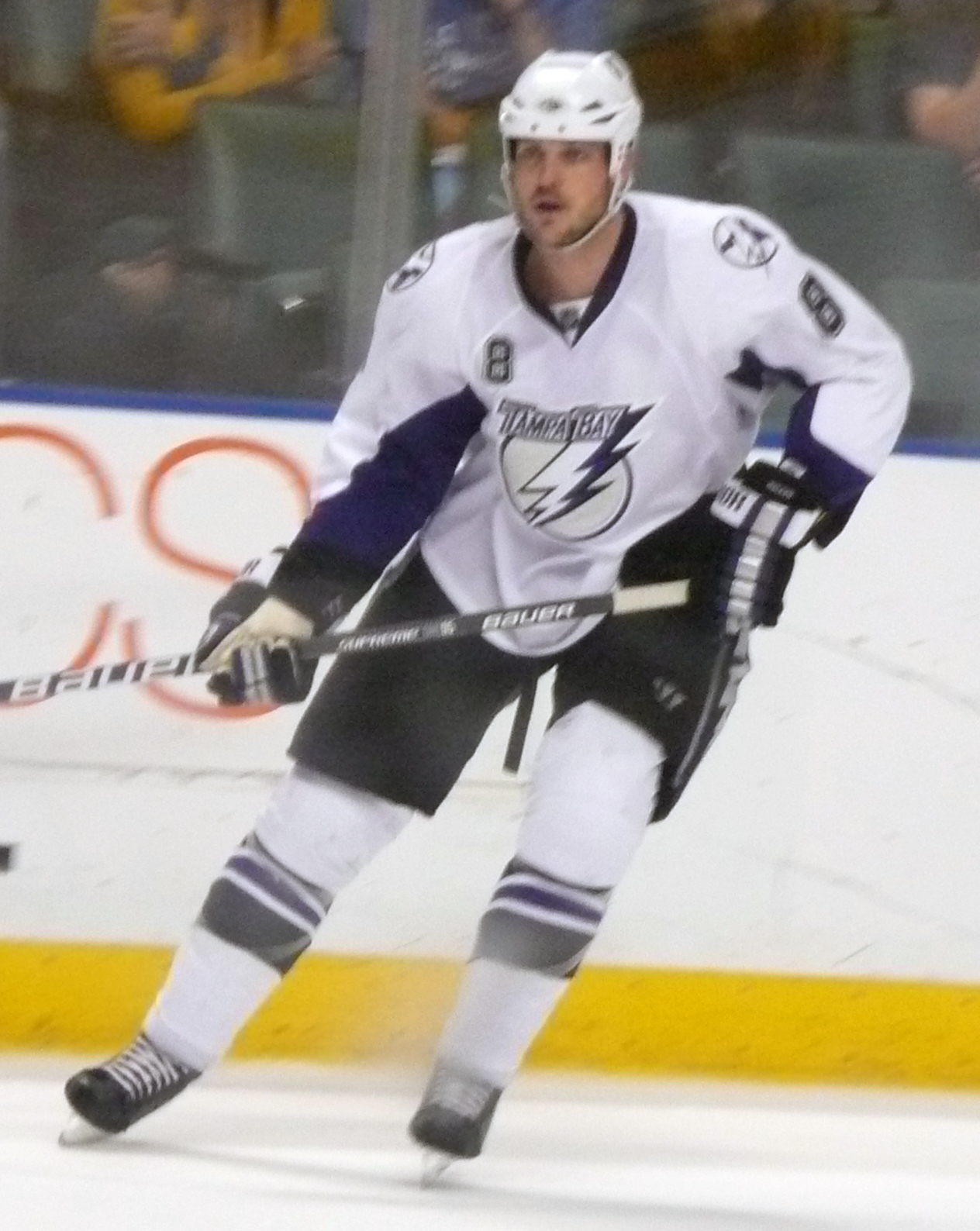 Matt Walker of the Tampa Bay Lightning skates in a game against the Florida Panthers in Sunrise, FL on 3/21/2010.